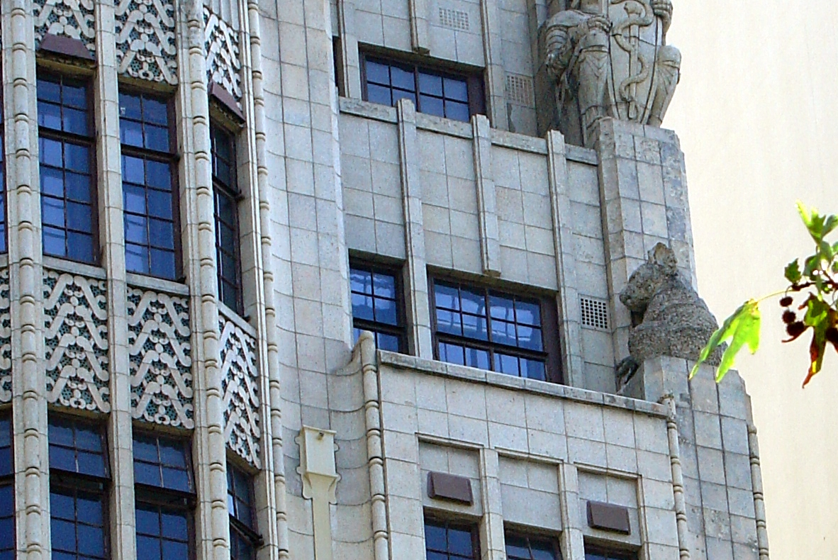 British Medical Association (BMA) House, 135-137 Macquarie St, Sydney. Fowell and McConnel. Subject of a design competition in 1928, winner of 1933 RIBA Medal